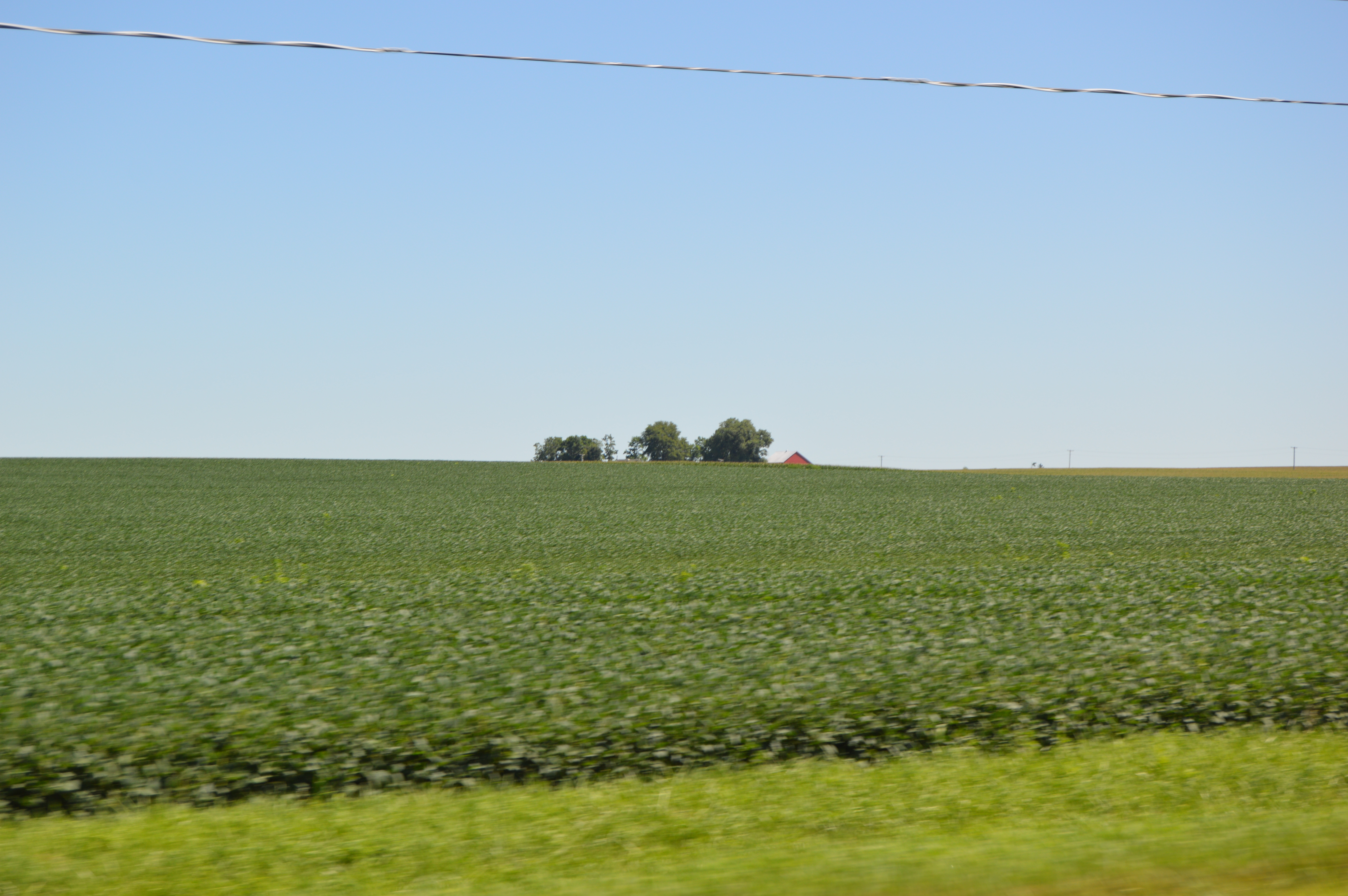 Soybean fields along the concurrent Illinois Routes 116/117 west of Roanoke in Roanoke Township, Woodford County, Illinois, United States.